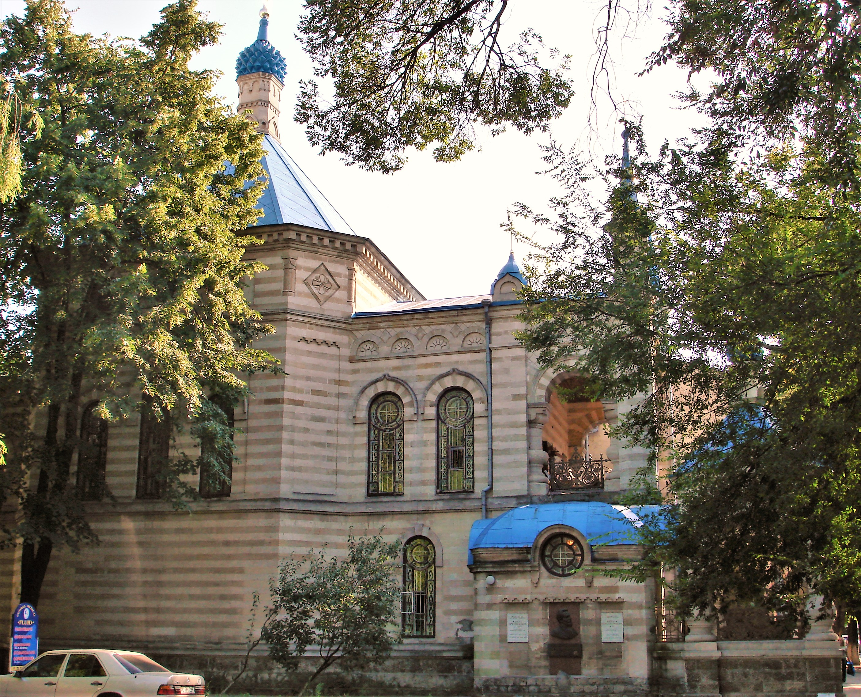 Stone Church of Saint Theodora from Sihla, by architect Al. Bernardazzi, is built in 1895 in Downtown Chişinău. Designed and built as a Cathedral of girls high school in Chişinău, the church of Saint Teodora de la Sihla is an architectural masterpiece by Al Bernardazzi. The building have the fingerprints of Byzantine style, typical for the creation of architect A. Bernardazzi. It is of national importance in Moldova and the owner is Metropolis of Bessarabia.